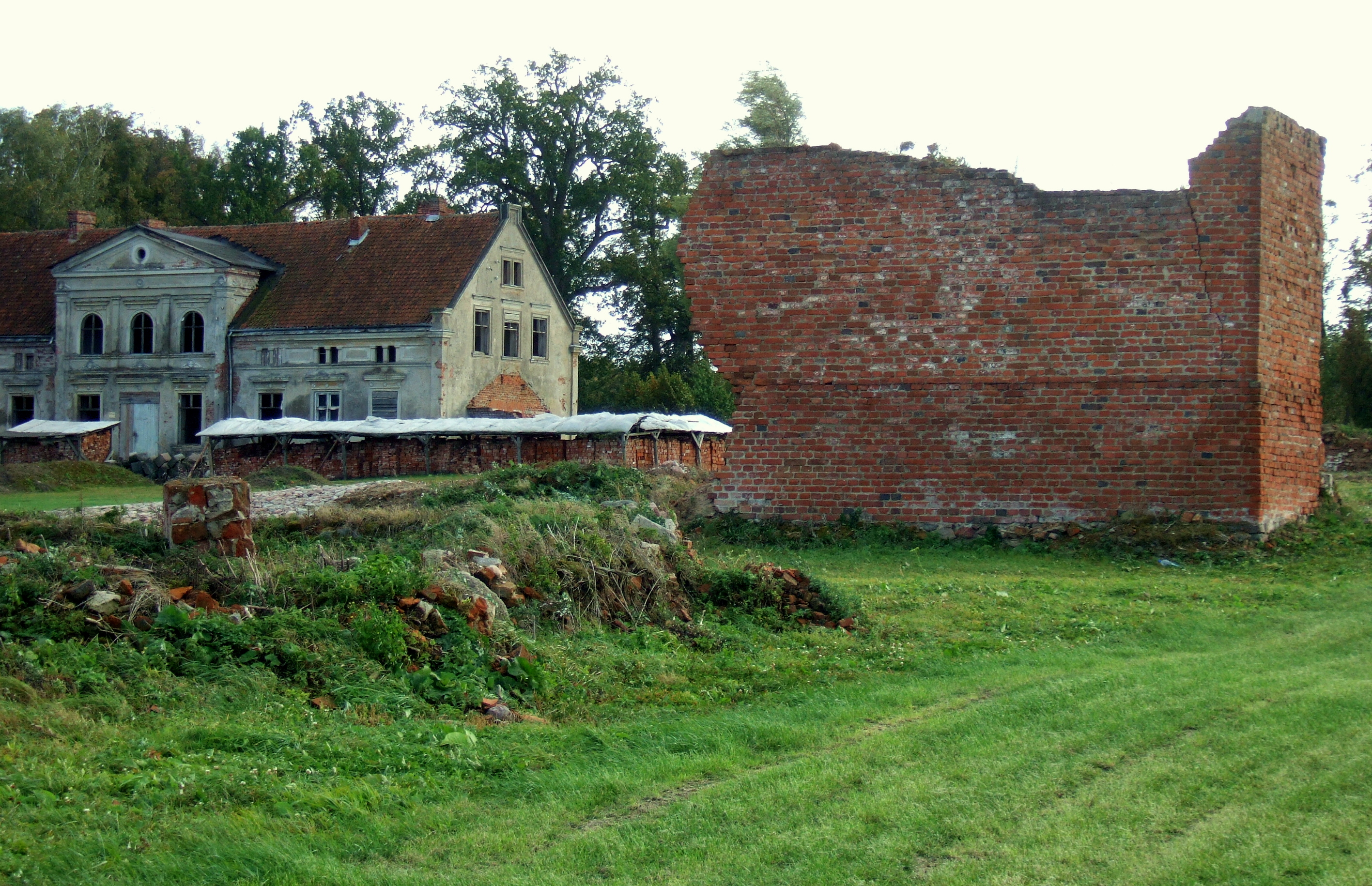 Manor- house in Glitajny from XIX, village in Warmian-Masurian Voivodeship in Poland, building and ruins of rests of the folwark buildings.